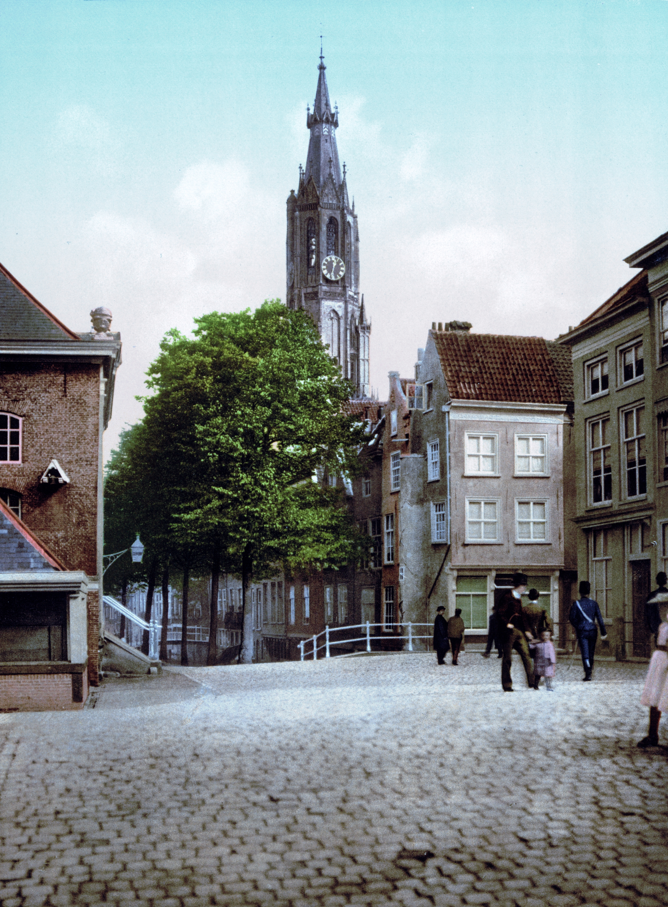 Delft, Netherlands: Camaretten